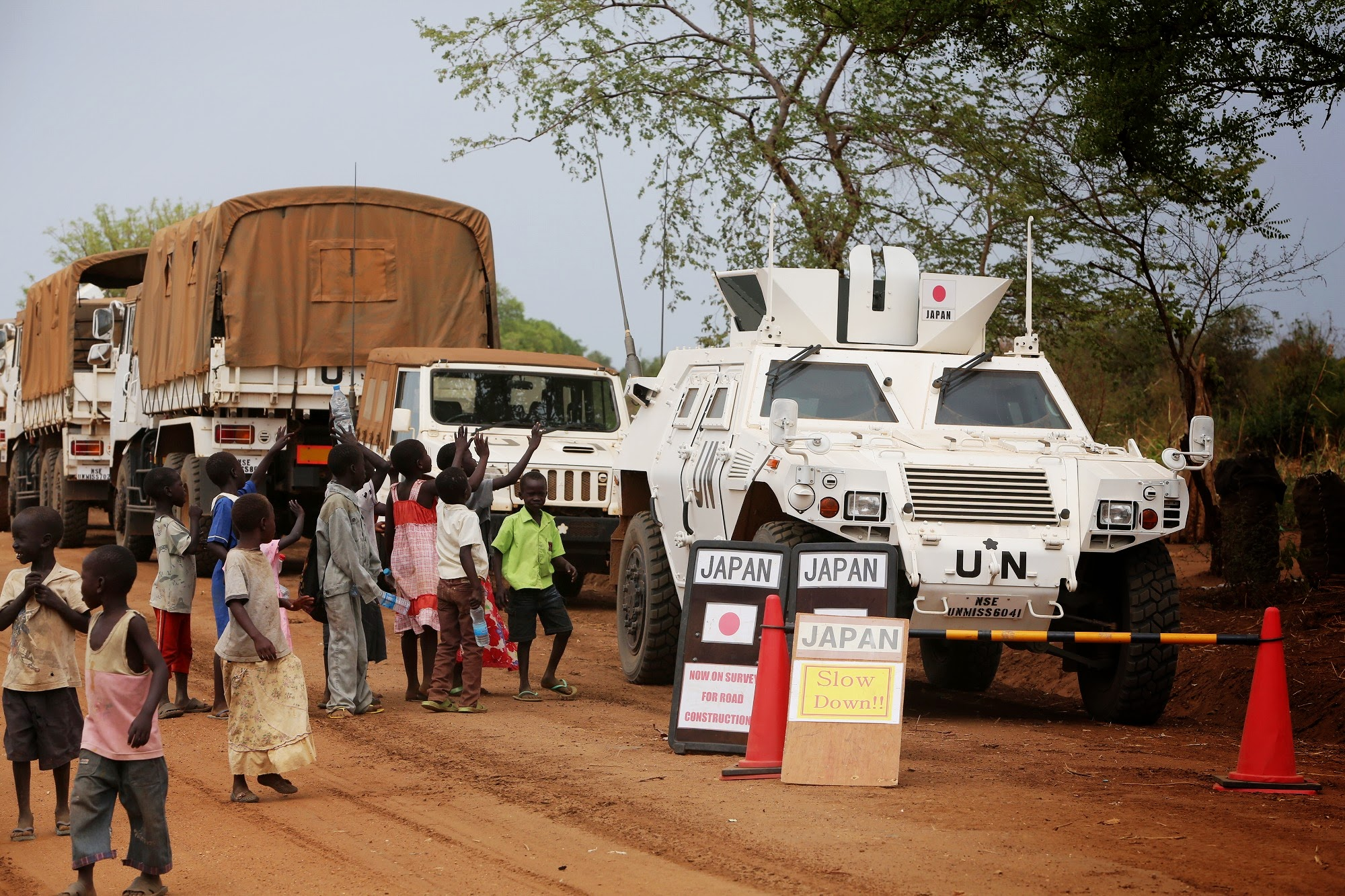 Title 25.4.8 ジュバ～イエイ間基幹道路補修2.jpg Album 国際平和協力活動等（及び防衛協力等） 国連南スーダン共和国ミッション 道路整備